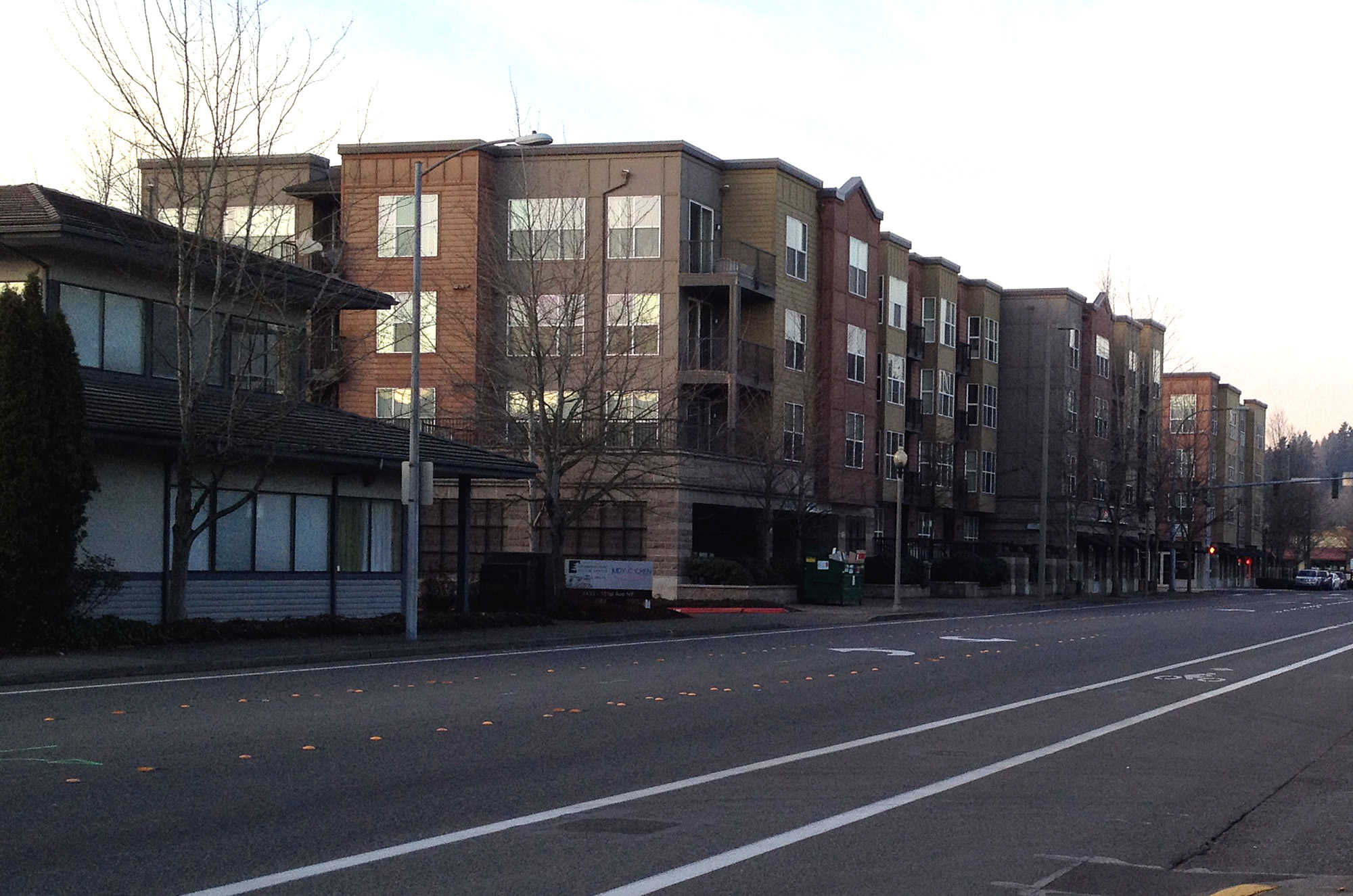 Bike lane in Redmond